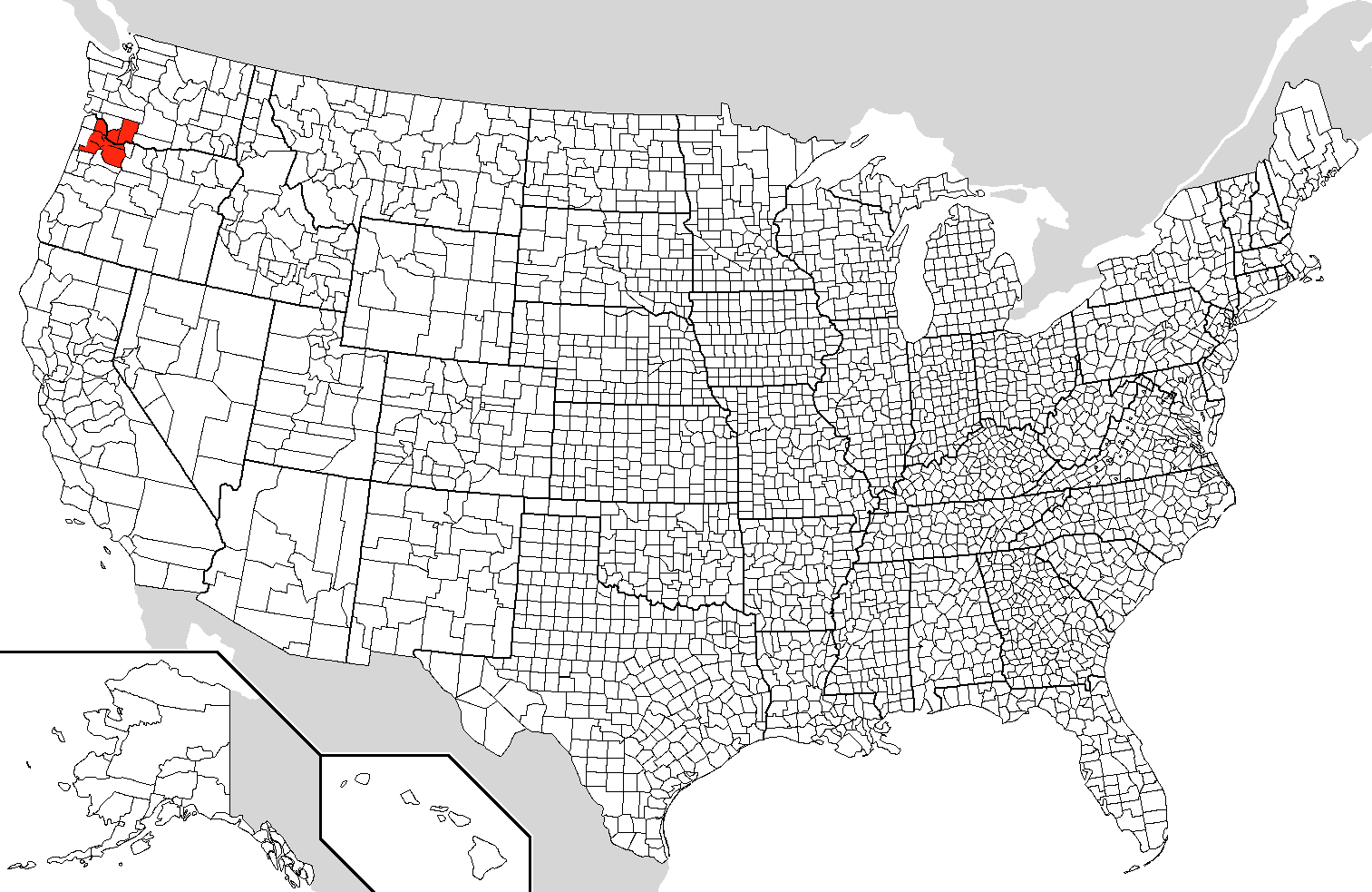 Location of the Portland metro area